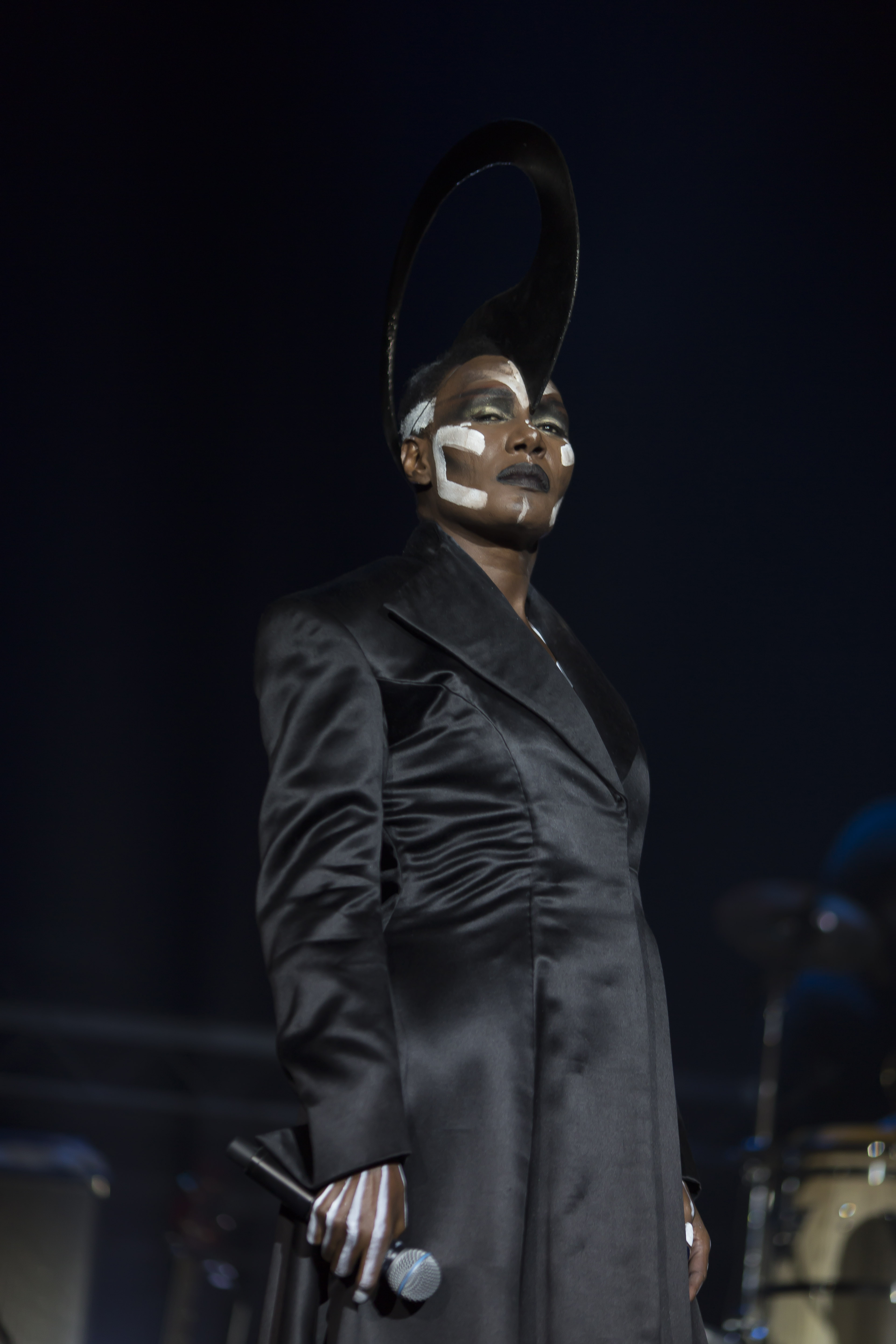 Grace Jones - Carriageworks (Vivid) - 1st June 2015